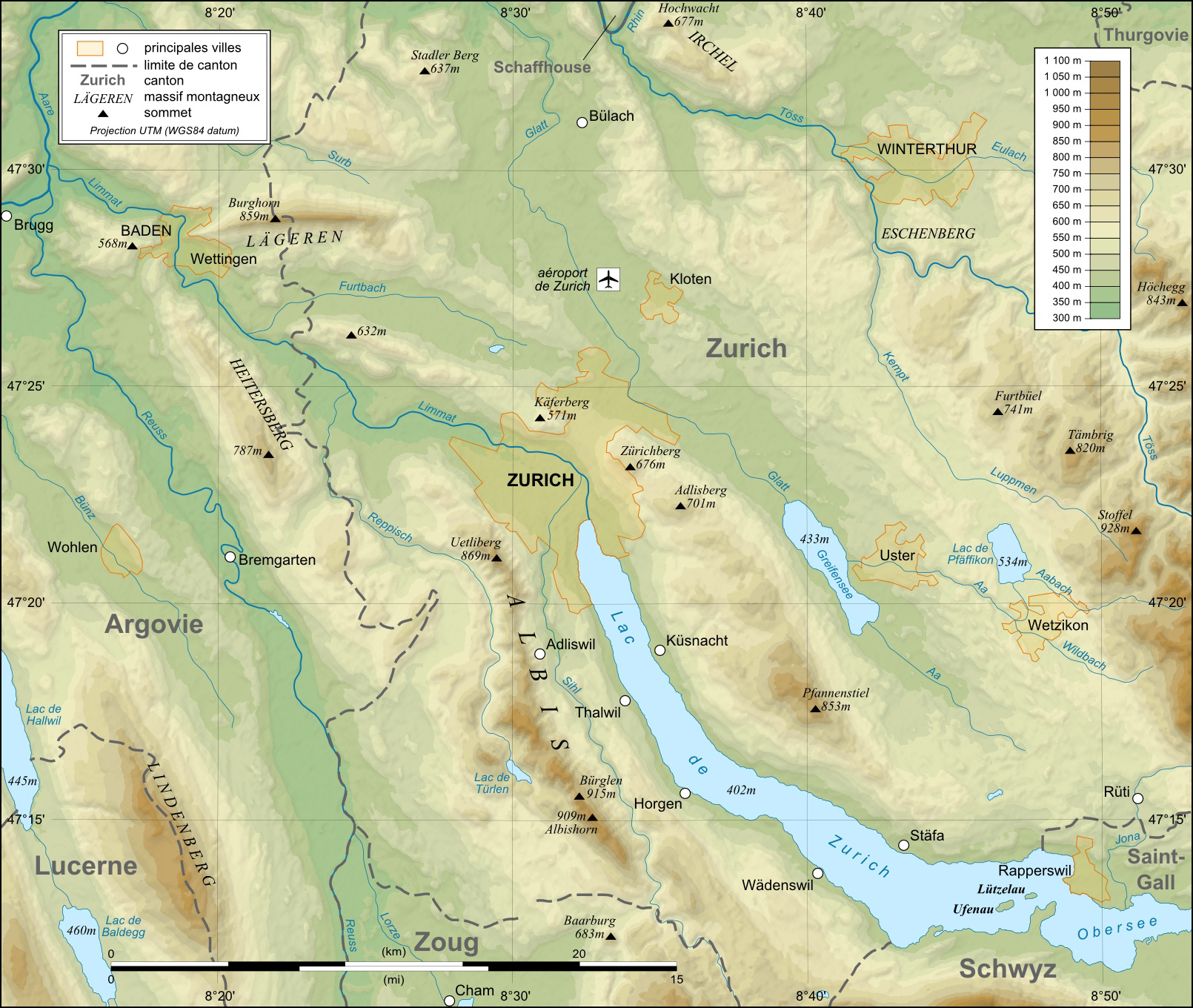 Topographic map in French of the area of Zürich, Switzerland Note : for translation purpose, use the SVG version.